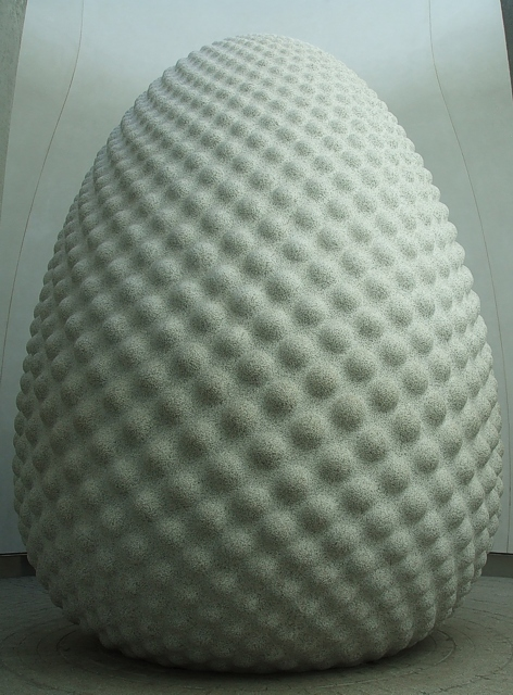 The Seed This rather wonderful sculpture is entitled "The Seed" and is to be found at the core of "The Core" - the exhibition centre at the Eden Project. Four metres high and weighing in at 70 tonnes it is one of the biggest sculptures ever made from a single piece of rock. It has been carved from 300 million-year-old Cornish granite by the artist Peter Randall-Page and features over its surface an intricate pattern of bumps inspired by the head of a sunflower.